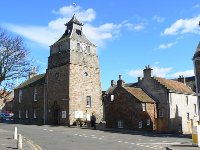 Tollbooth and town hall The architecture of Crail's tollboth (with the more recent town hall attached behind it) would not be out of place in the Netherlands or Flanders.